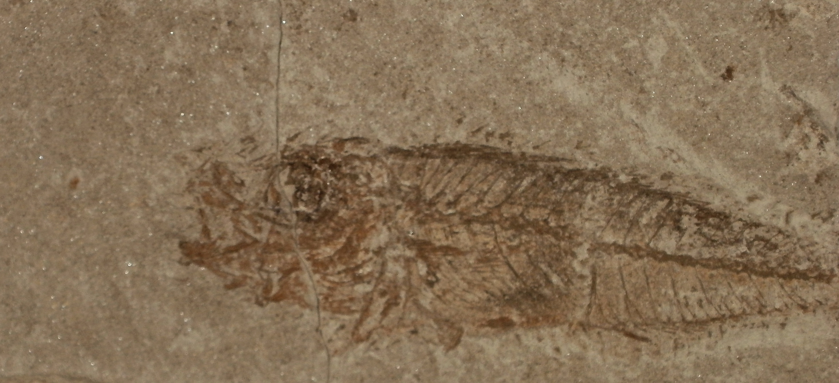 fossil carangid from Belgrade, identified as Caranx gracilis